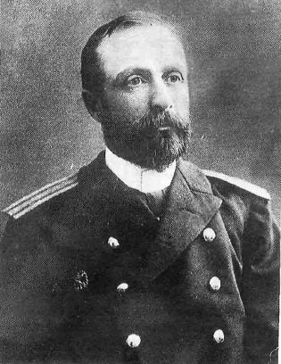 Russian Captain Edward Szczęsnowicz (1852-1901, Э.Н. Щенснович, of the Polish nationality), a commander of the battleship Retvizan during Russo-Japanese war in 1904 (later vice-admiral).